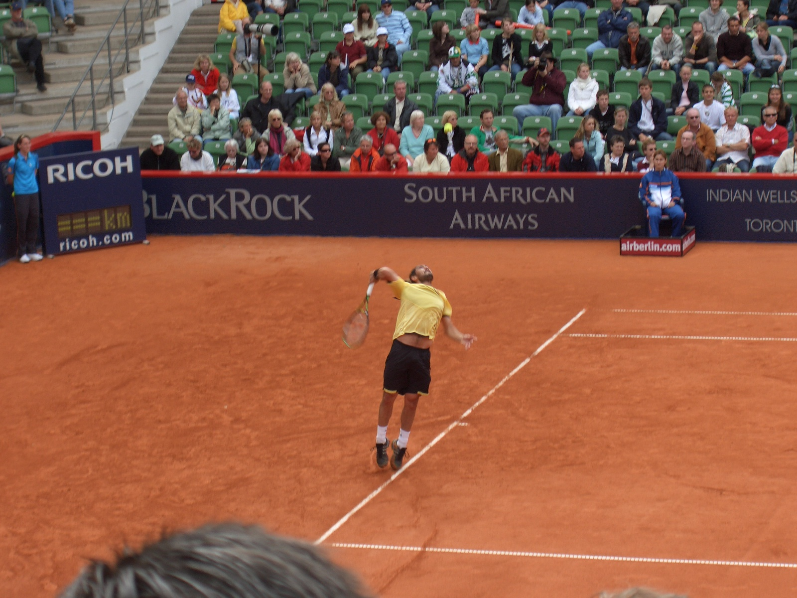 Marcos Baghdatis serving against Philipp Kohlschreiber at the Hamburg Masters 2007